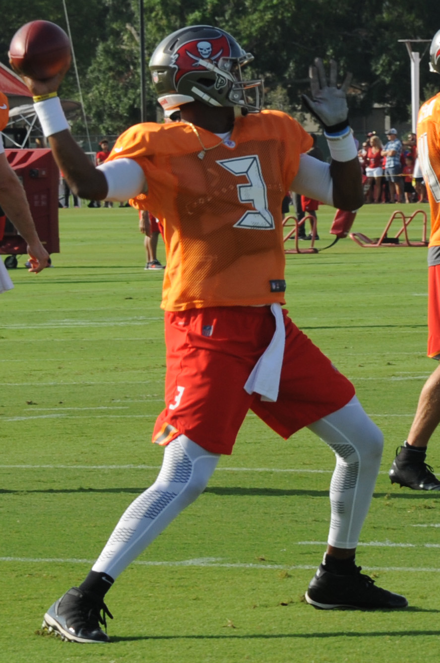 Tampa Bay Buccaneers Quarterback Jameis Winston throws during training camp on July 28, 2018 at One Buc Place in Tampa, Fla. During camp, quarterbacks are trying to practice drills at game speed and also establish chemistry with their halfbacks, receivers, and offensive line.